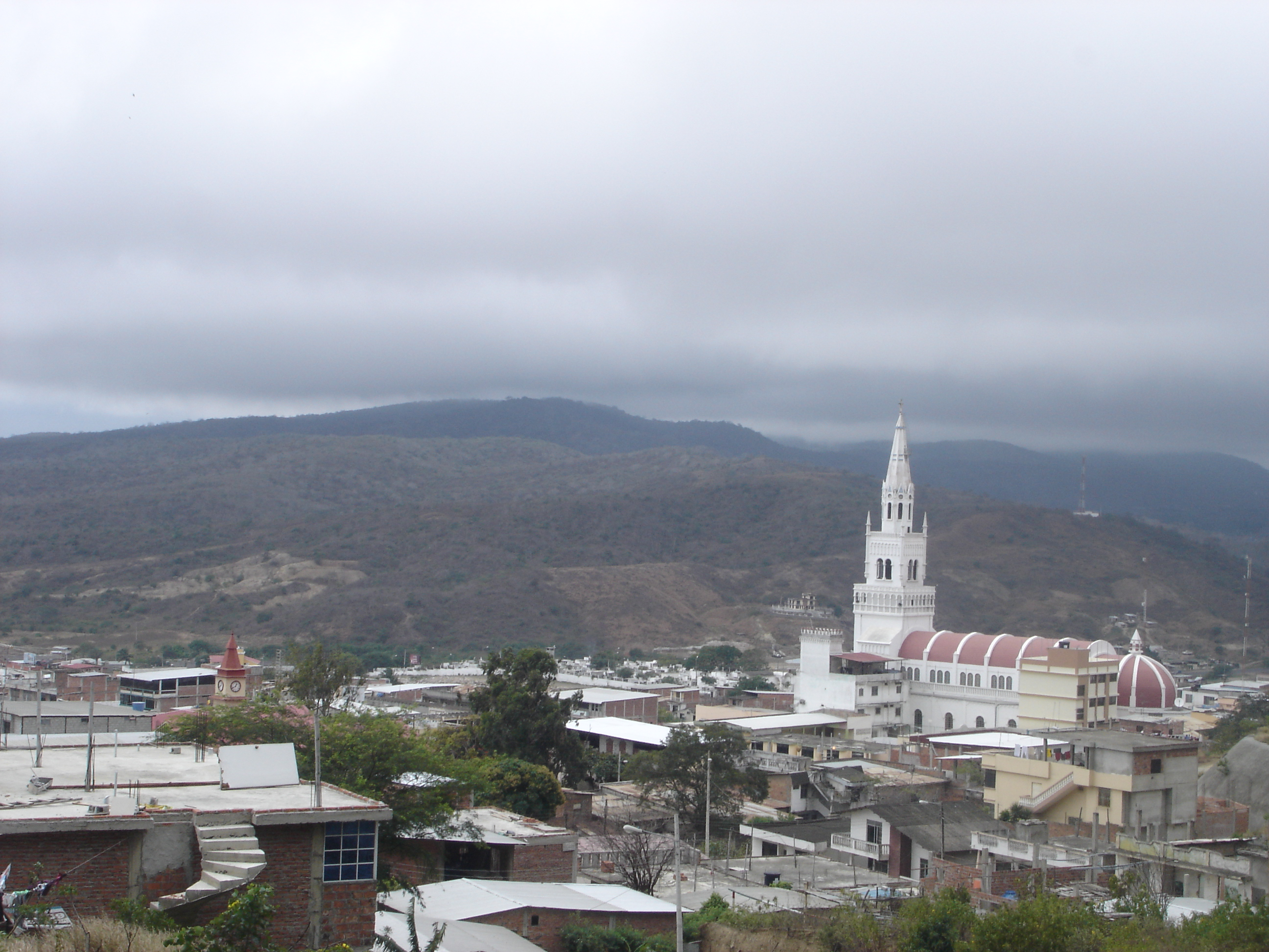 Panorama of Montecristi, Ecuador, from Ciudad Alfaro